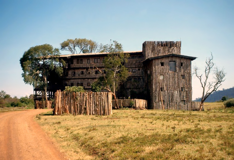 Treetops Hotel is a hotel in Aberdare National Park in Kenya near the township of Nyeri. Source: Link Author: Javic License: CC-BY-SA 2.0